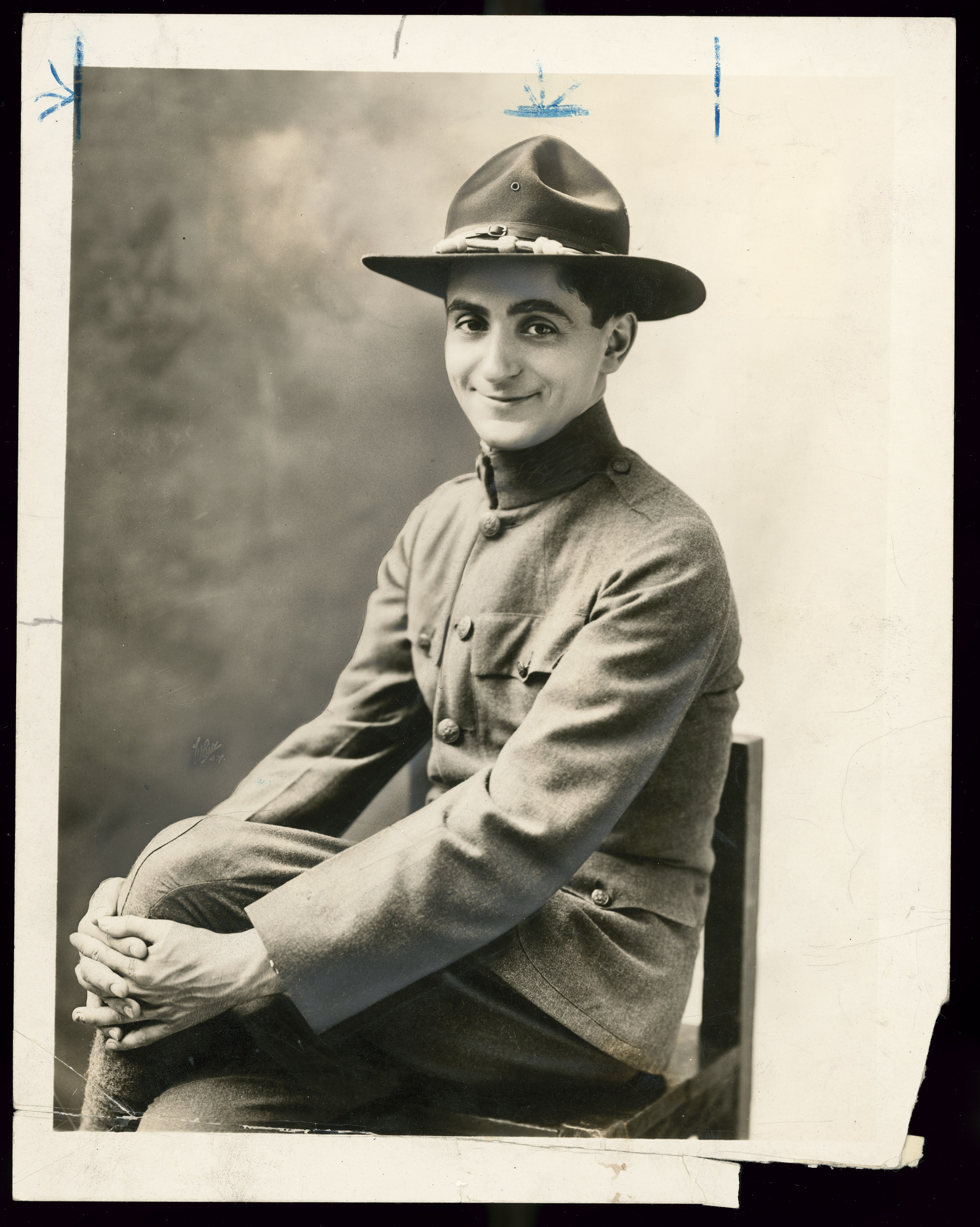 Title: Irving Berlin, now a sergeant in the United States Army, who has written the military revue "Yip, Yip, Yaphank" at the Century Theatre, beginning Monday, Aug. 19th Abstract/medium: 1 photograph : gelatin silver ; sheet 25.7 x 20.2 cm (8 x 10 format)